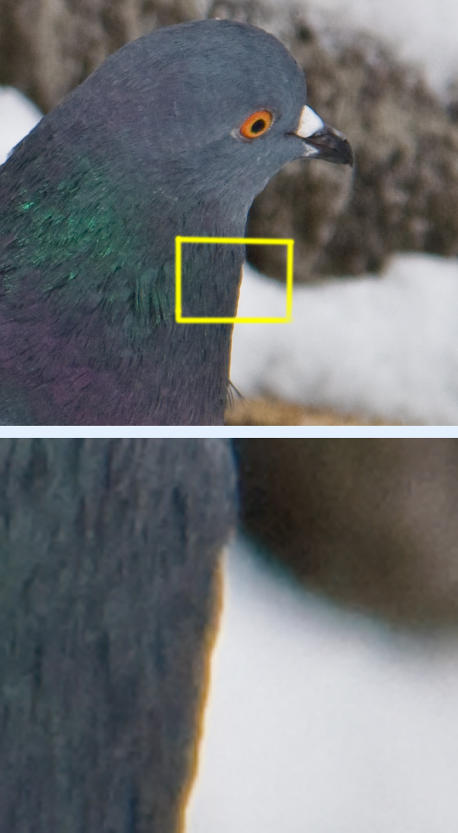 Chromatic abberation sample. Sony R1, f/4.8 71.5mm (120 eqiv), flash + daylight.